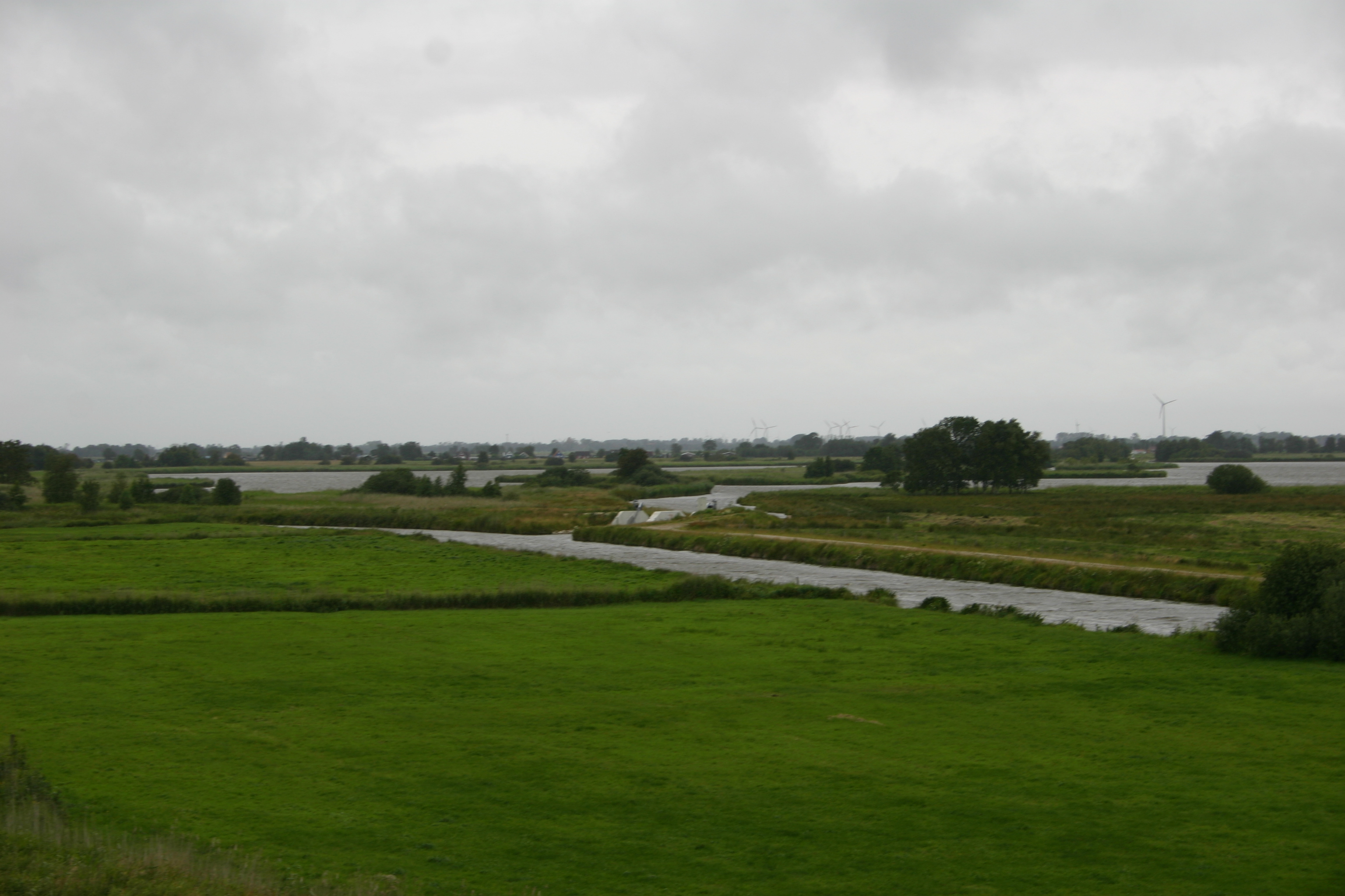 Southern part of the Großes Meer (lit. Big Lake) and nearby canals, a nature reserve in the community of Südbrookmerland, district of Aurich, East Frisia, Germany